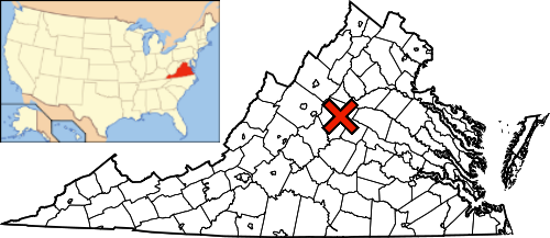 This is a locator map showing Charlottesville in Virginia in the United States of America.